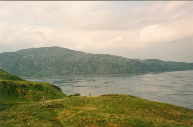 Scarba and The Strait of Coryvreckan. The extreme tidal race between the islands of Jura and Scarba give rise to the notorious Corrievreckan whirlpool; a condition that only occurs at a few other places in the world. The local navigation charts describe the area as "un-navigable"